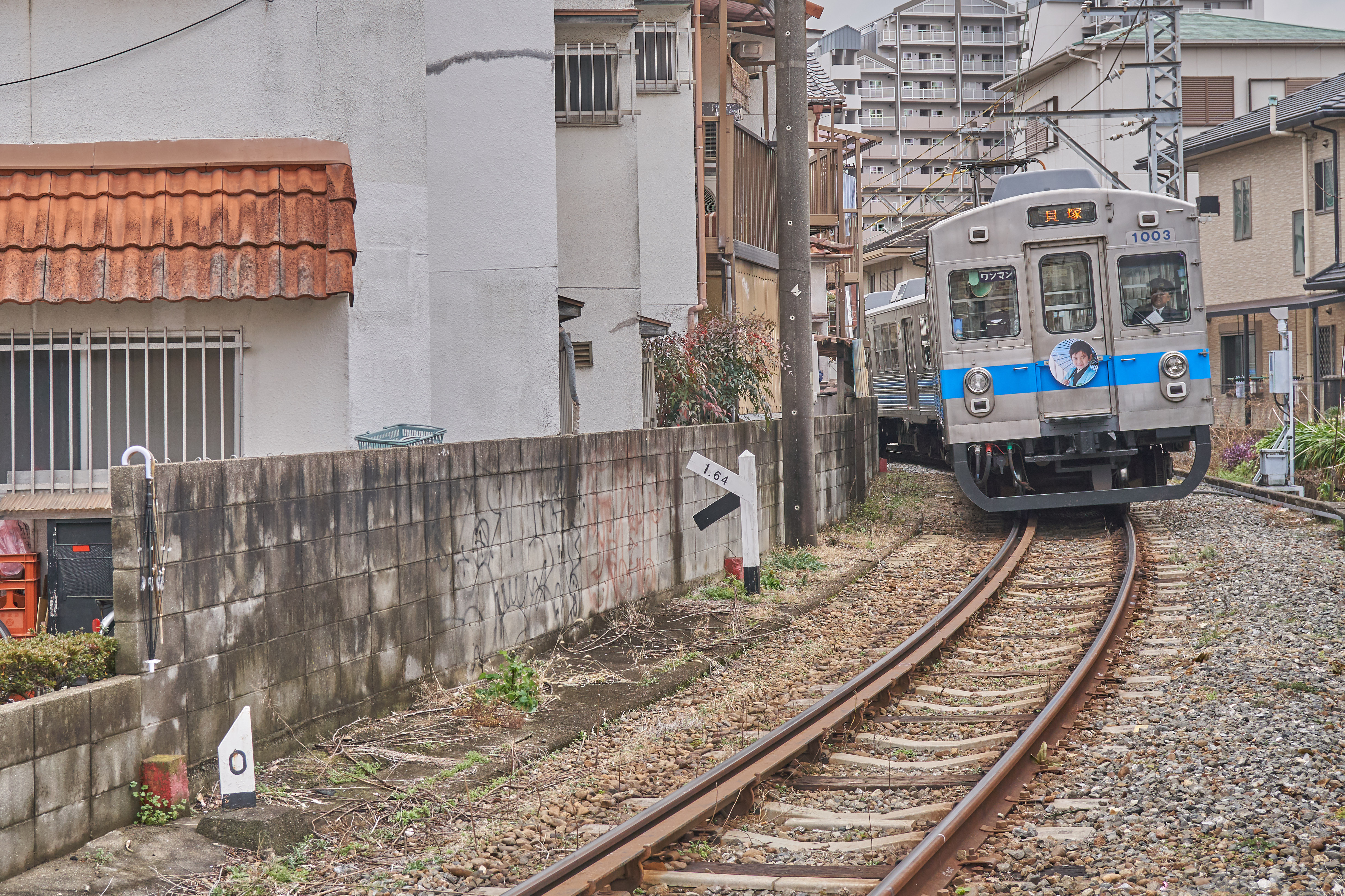 Kilometre Zero of Mizuma Railway